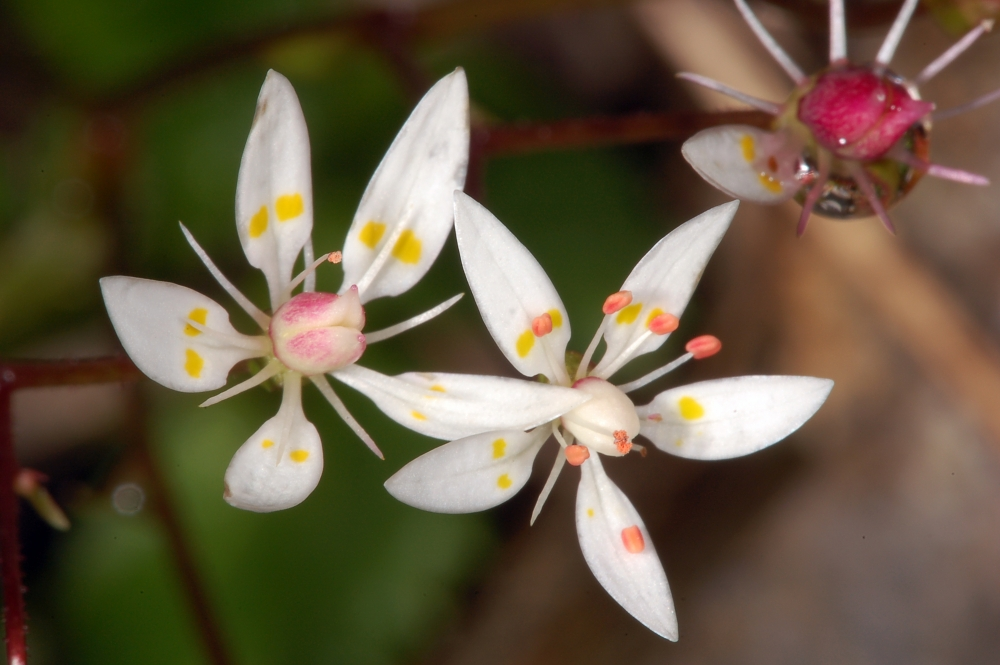 Saxifraga stellaris, mid-station of Aiguille du Midi, Haute-Savoie, France